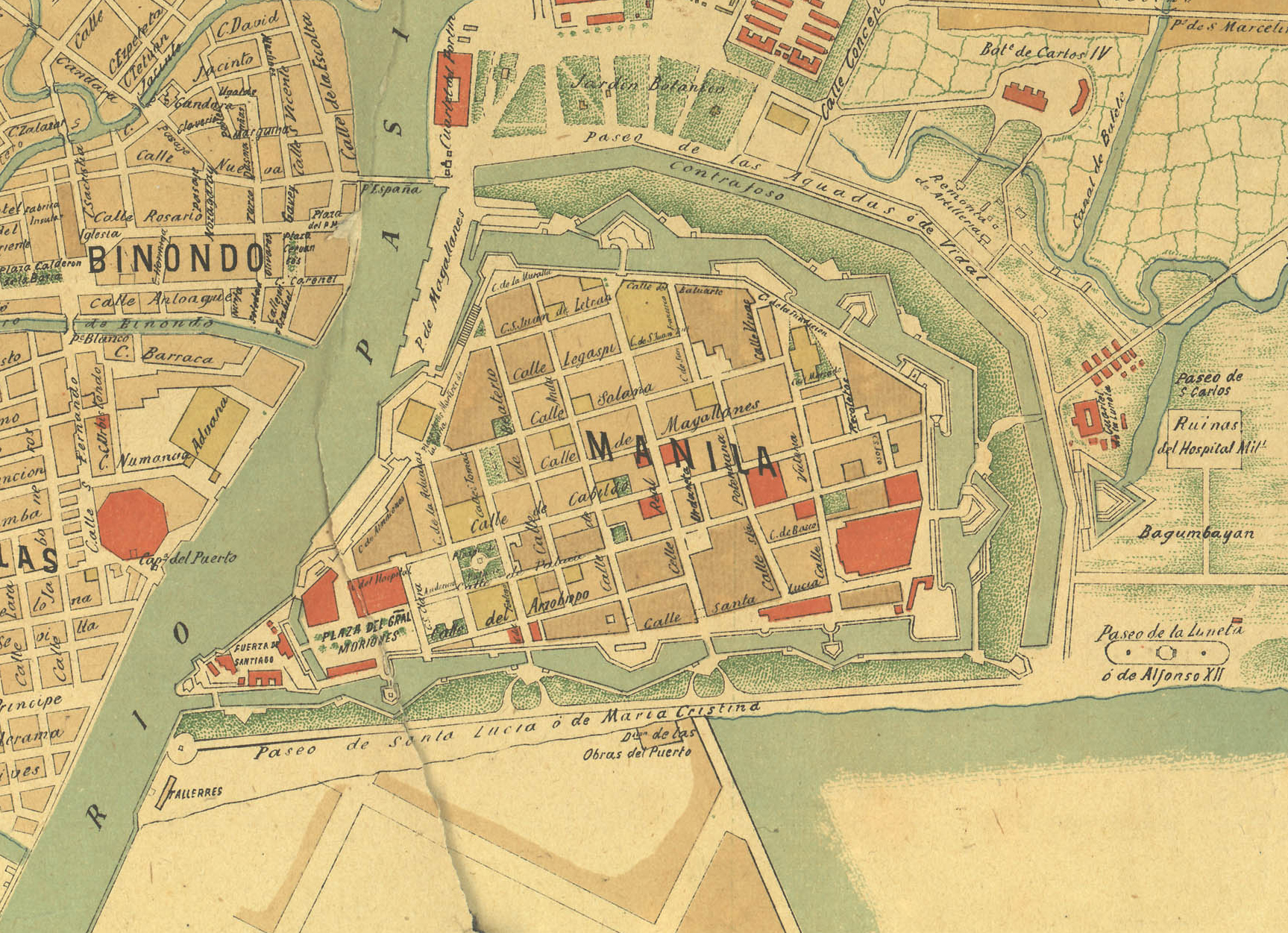 A section of a map showing Intramuros in Manila, year 1898